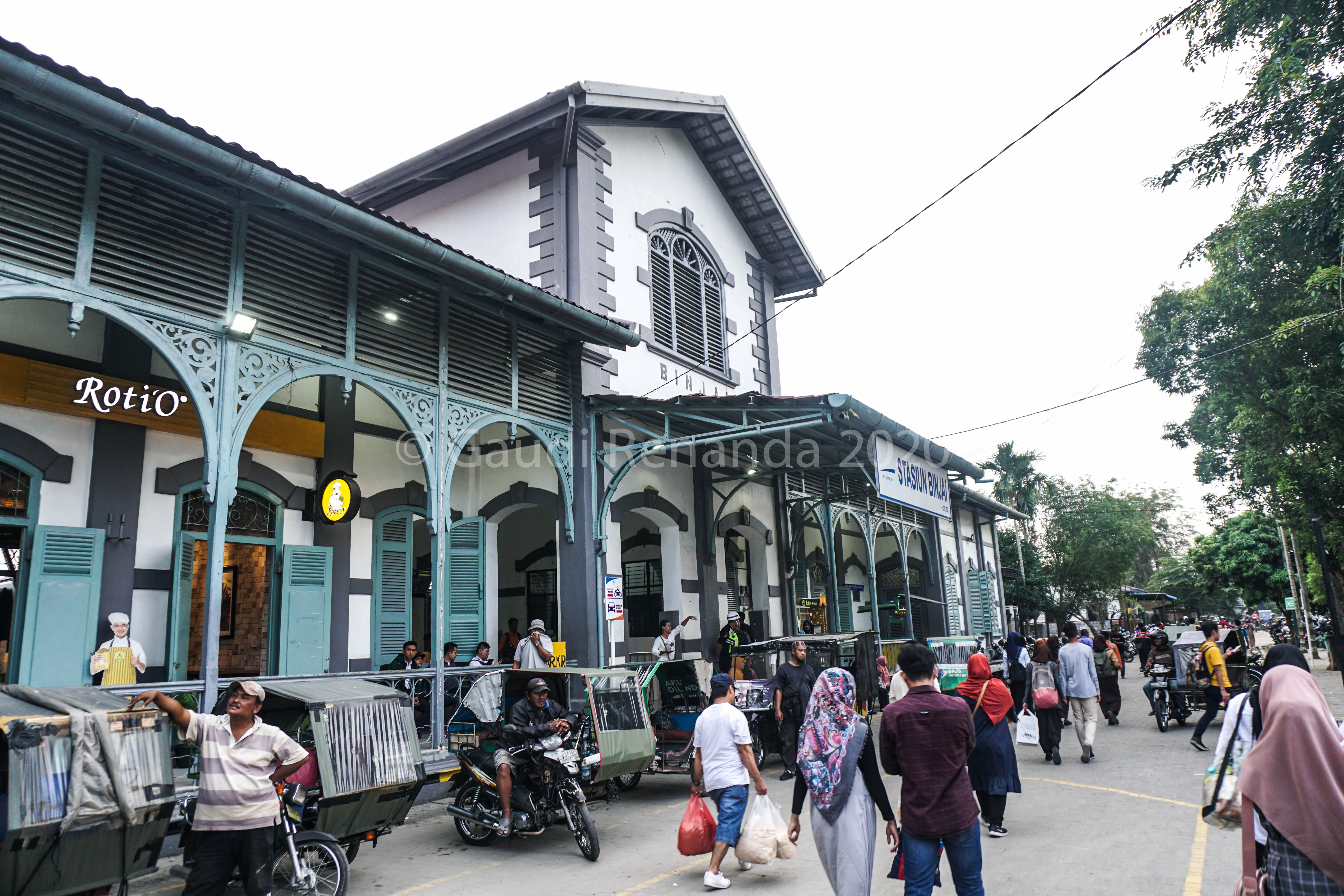 Binjai Railway Station Building